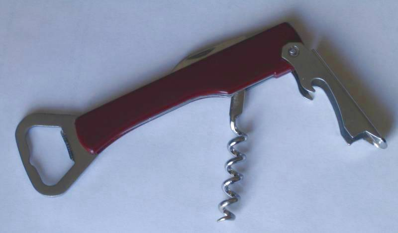 waiters corkscrew.